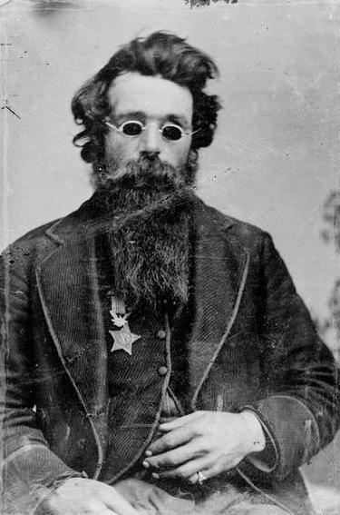 Jefferson Coates with Medal of Honor, 1870